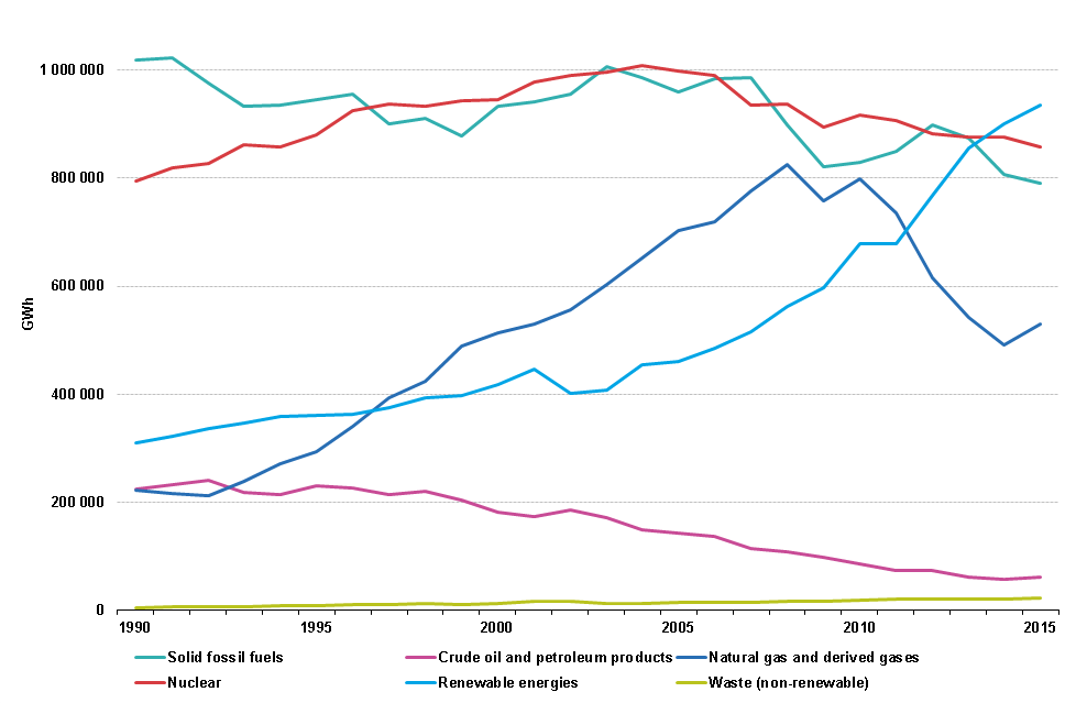 The trends of various sources used for gross electricity production in Europe between 1990 and 2013. Measured in GWh.